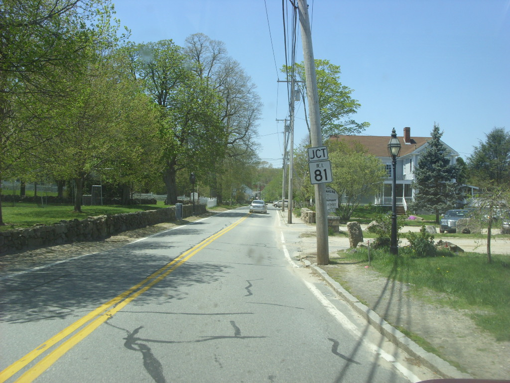 Rhode Island Route 179 approaching the junction with Rhode Island Route 81 in Adamsville, Rhode Island.